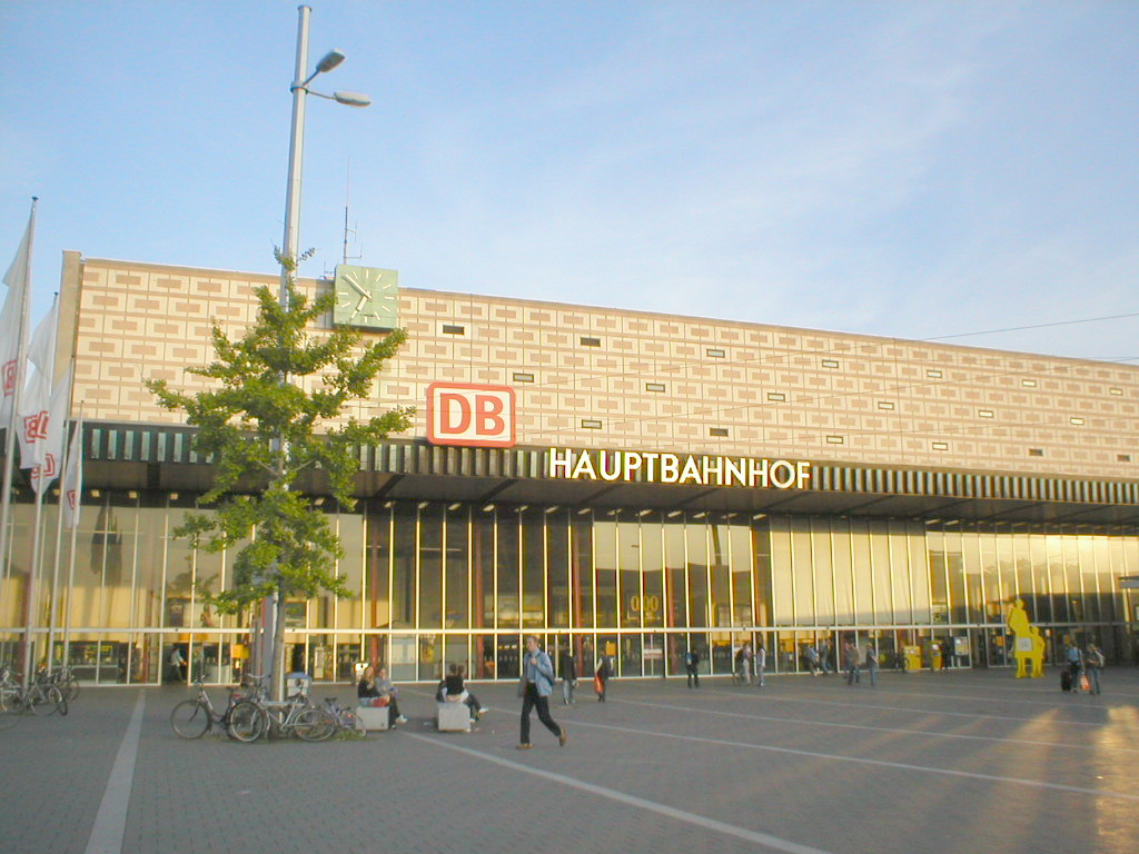 Braunschweig main station, Germany